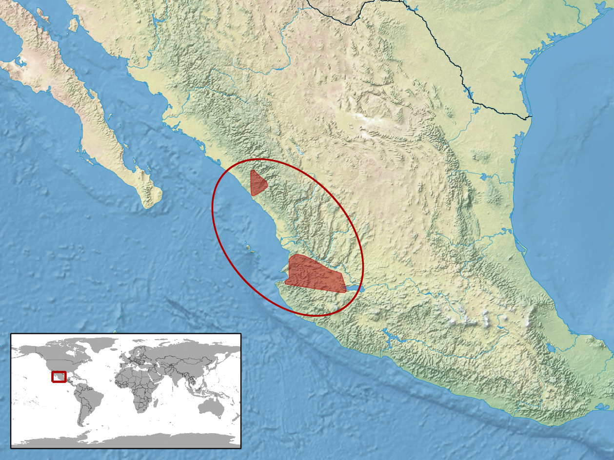 geographic distribution of Coniophanes lateritius (Native: Mexico)